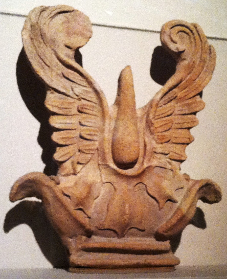 Winged antefix, type II, Aï Khanum, Palace, Main entrance, 3rd centruy B.C., Terracotta, National Museum of Afghanistan, Personal photograph 2011, British Museum.